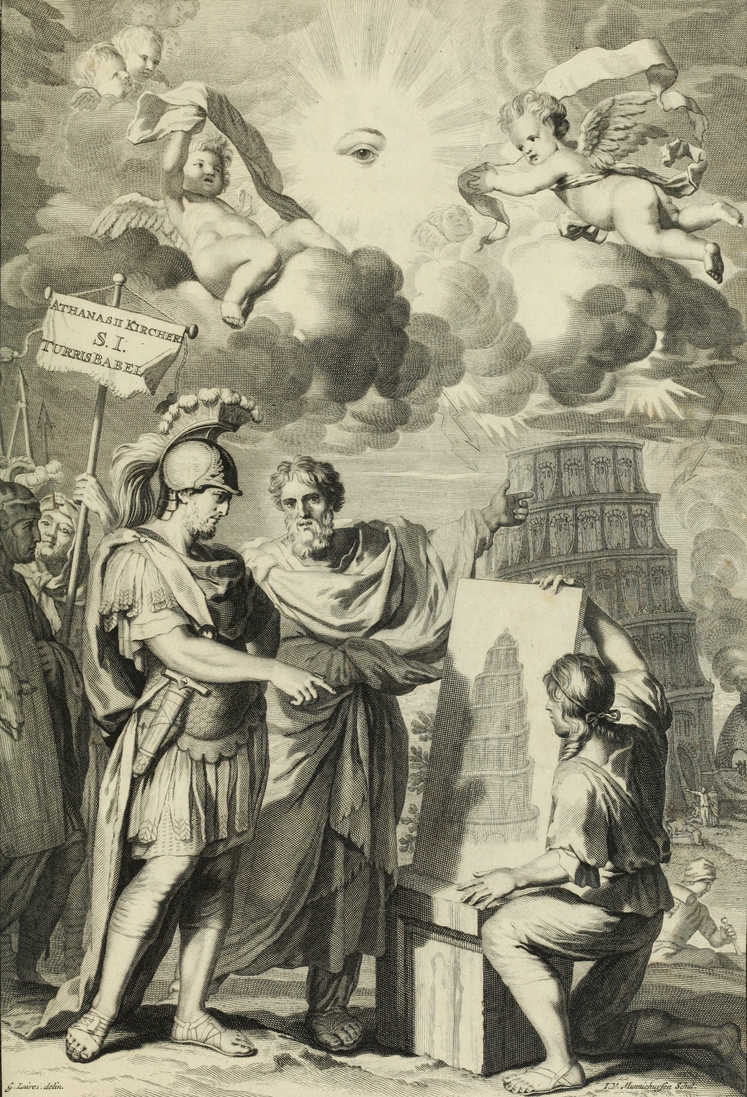 1679 book Turris Babel by Athanasius Kircher